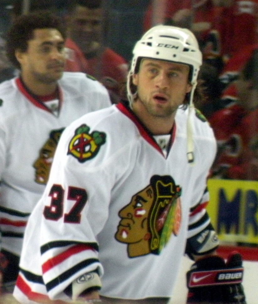 Chicago Blackhawks forward Adam Burish during warm up prior to a National Hockey League playoff game against the Calgary Flames, in Calgary.